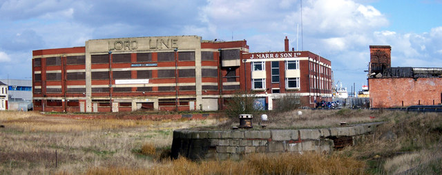 The Old Fish Dock & Lord Line Building Grass now grows in the disused fish dock.